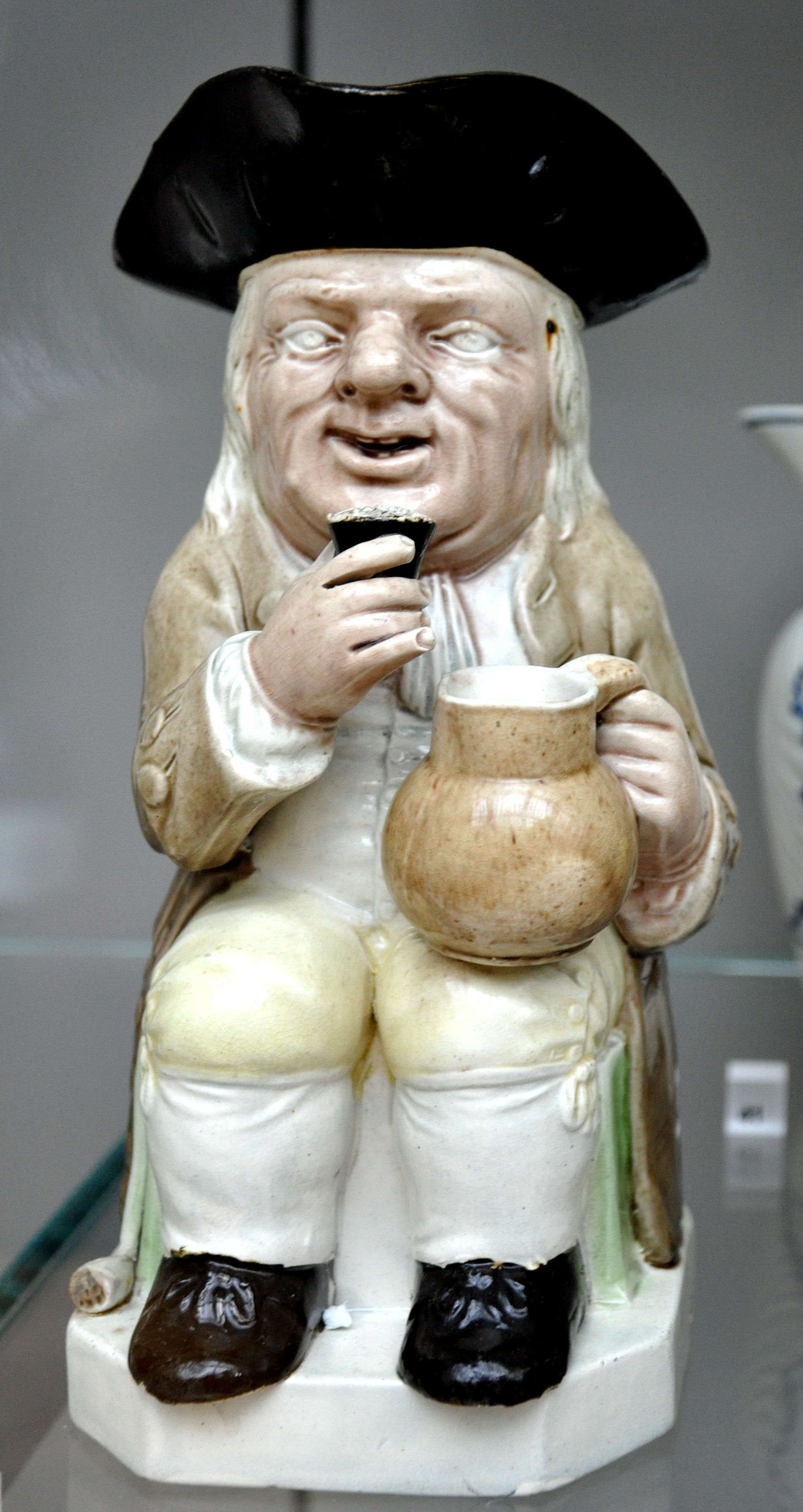 Toby Jug, made by Ralph Wood (the Younger), Burslem, ca. 1782-1795; lead-glazed earthenware Victoria and Albert Museum, London, museum no. C.42-1955 (Link)